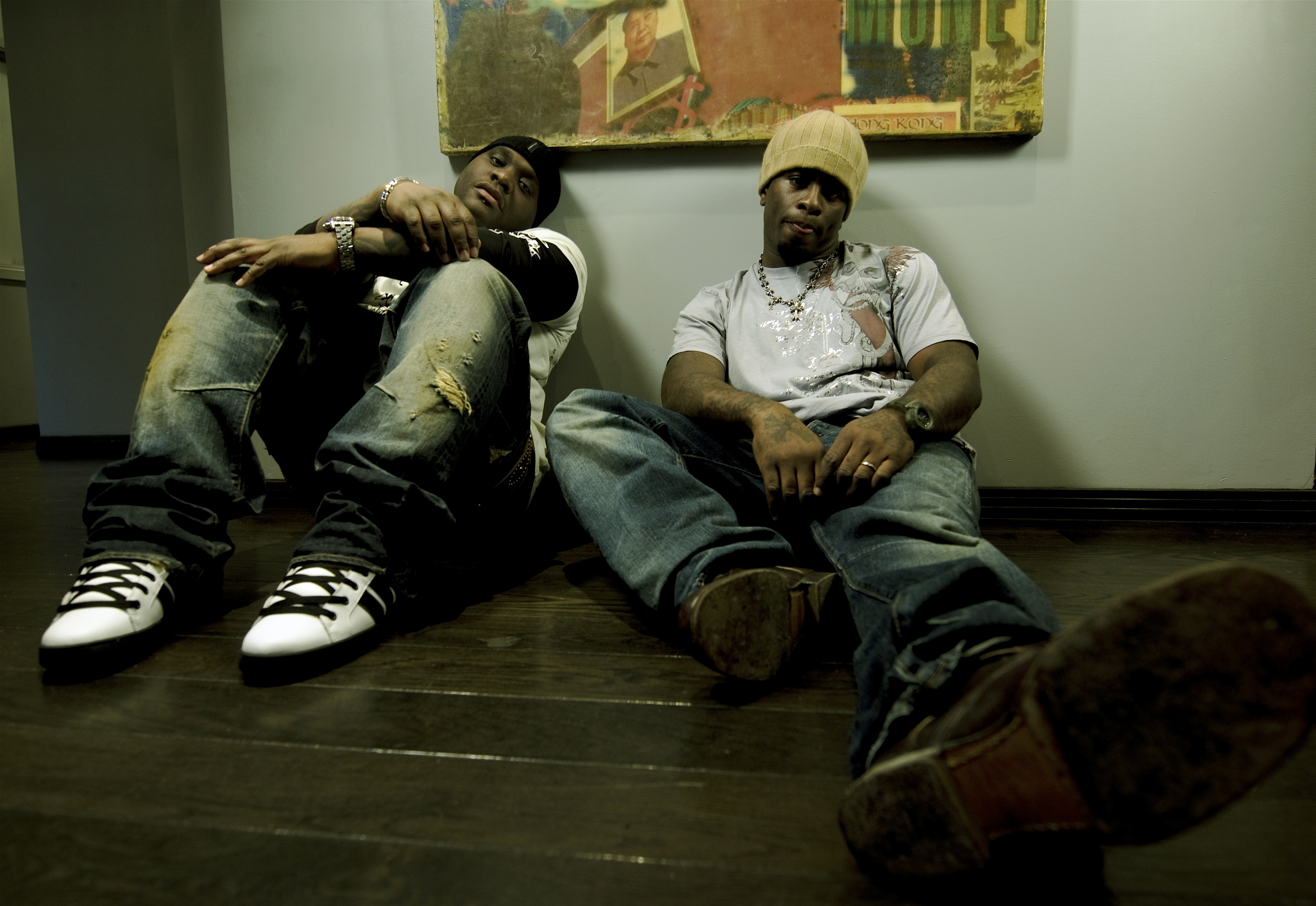 Tim and Bob in the Studio.